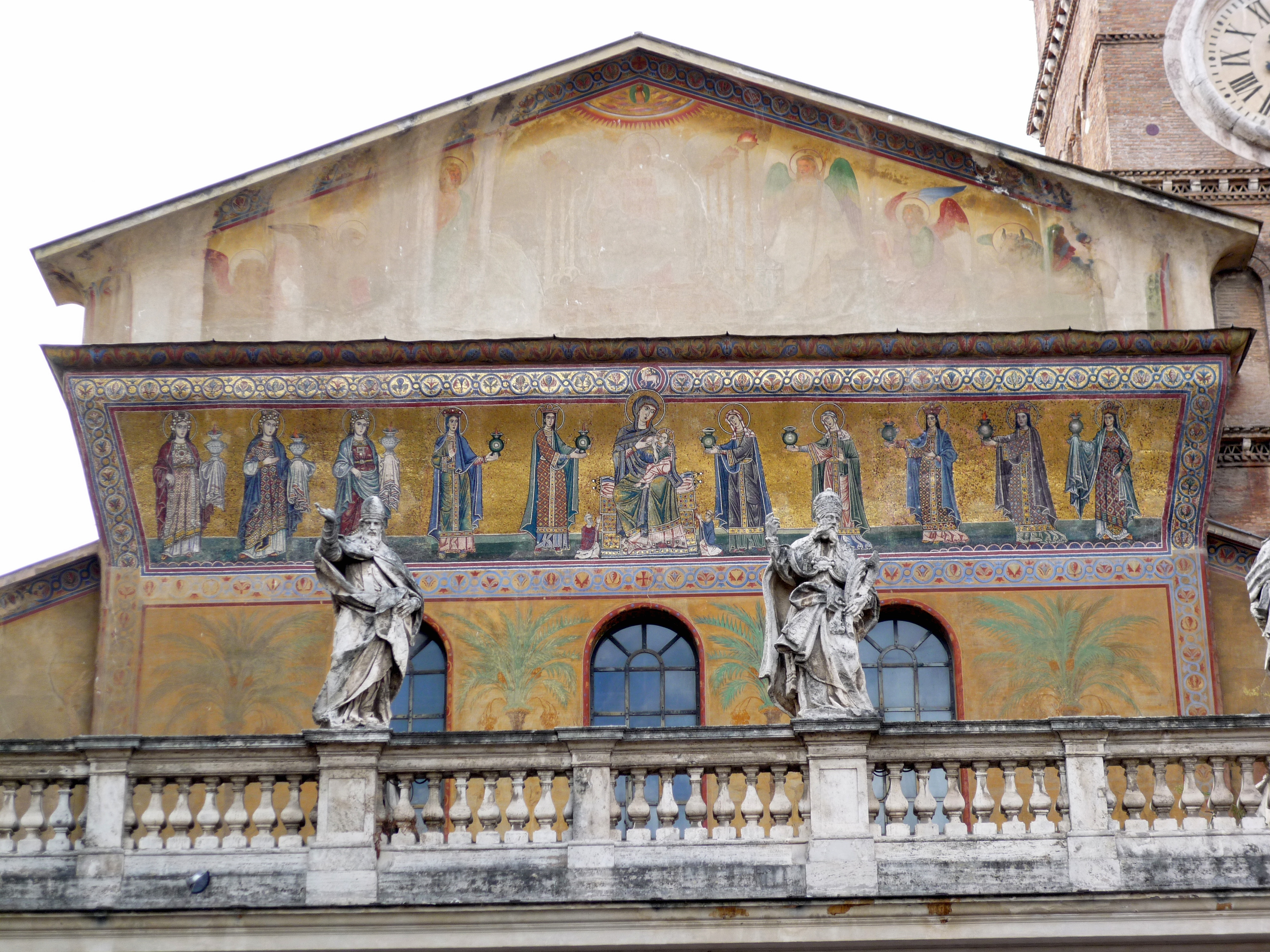 Basilica of Our Lady's in Trastevere, Rome (part of the facade)